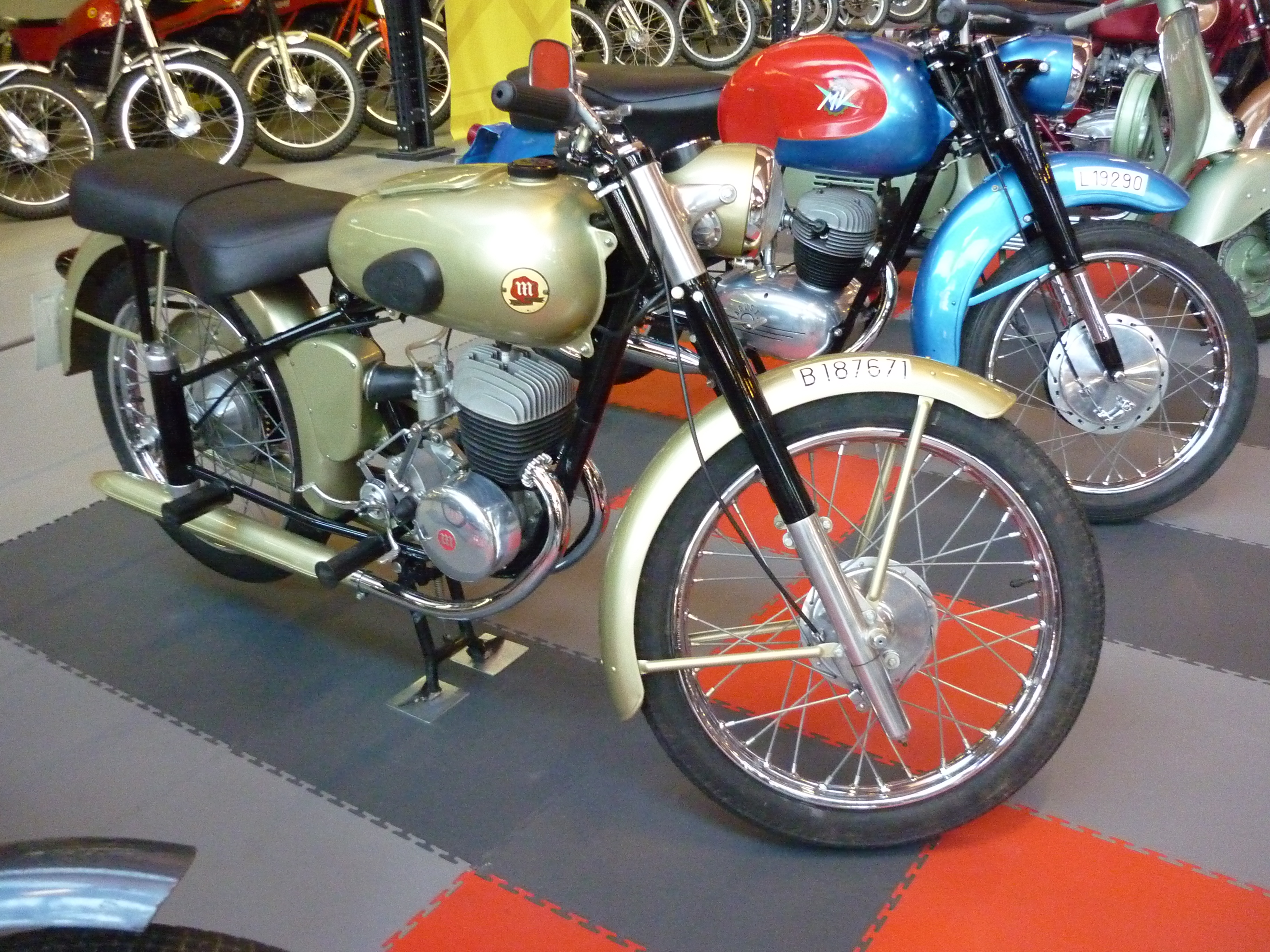 Montesa Brio 81 125cc (1957)